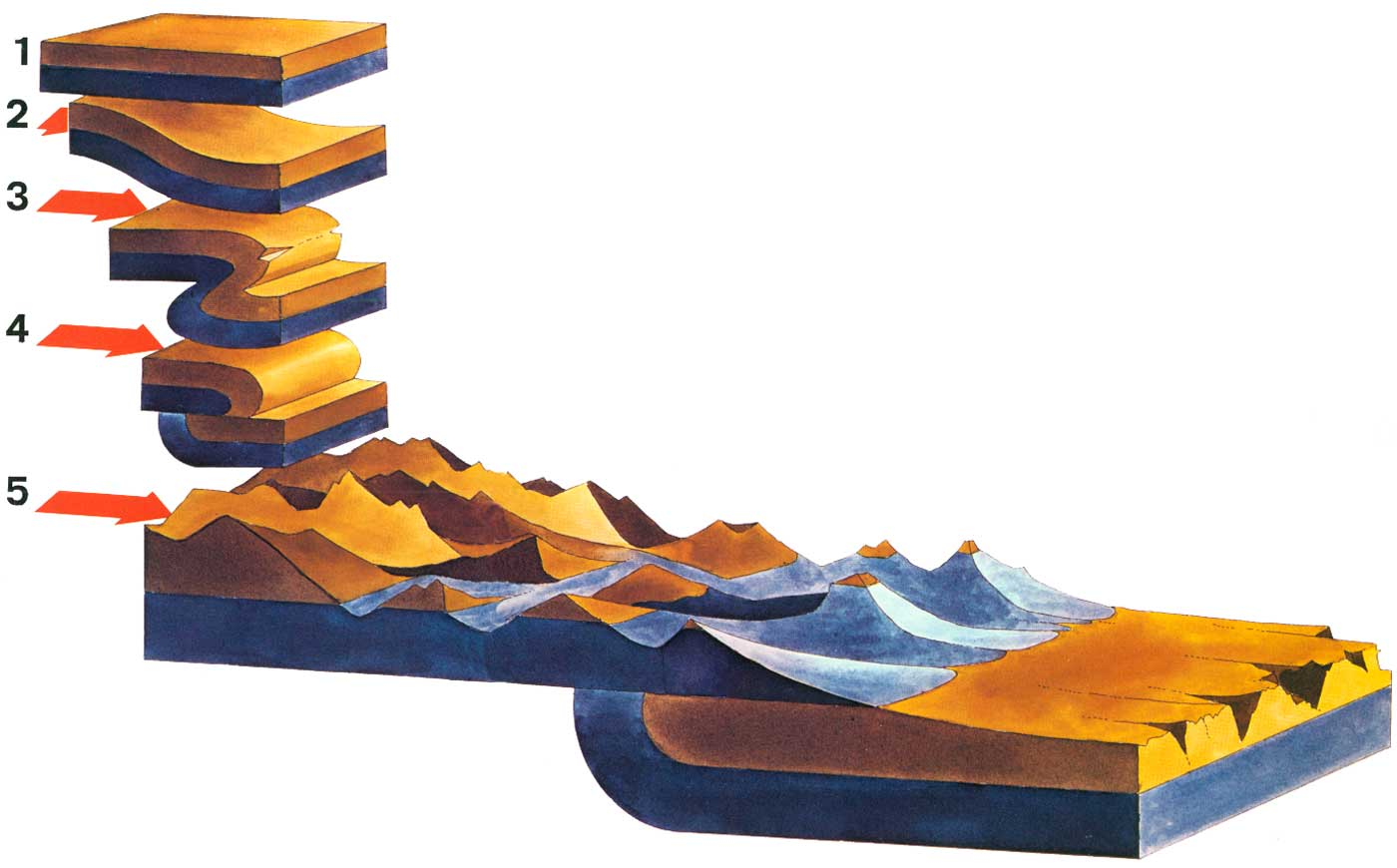 schematic illustration of the Lewis overthrust fault in northern Montana, USA and Southern Alberta, Canada. The fault can be seen best in Glacier National Park, USA and Waterton Lakes National Park, Canada. original caption: Overthrust Mountains 1 A hypothetical block of the Earth's crust in the region of Glacier National Park as it existed more than 60 million years ago. The two layers shown actually represent many strata of sedimentary rocks. 2 Lateral pressure begins to force the rock layers to buckle. 3 A large fold has been created, forcing the rock strata to double over and overturning some layers. A break, or fault, is forming at the plane of greatest stress. 4 The break has been completed and the strata west of the fault have slid eastward, up and over the rocks east of the fault. 5 The Glacier landscape today. Throughout the millions of years during which the folding, faulting, and overthrusting have been taking place, the process of erosion has continued; a thousand meters of stratified rocks have been worn away, so that only a remnant of the overthrust layers can be seen today. Because Glacier's eastern slope represents the eroded face of the overthrust block, the mountain range rises precipitously from the prairie, with no foothills breaking the abrupt transition from open prairie to mountain valley.